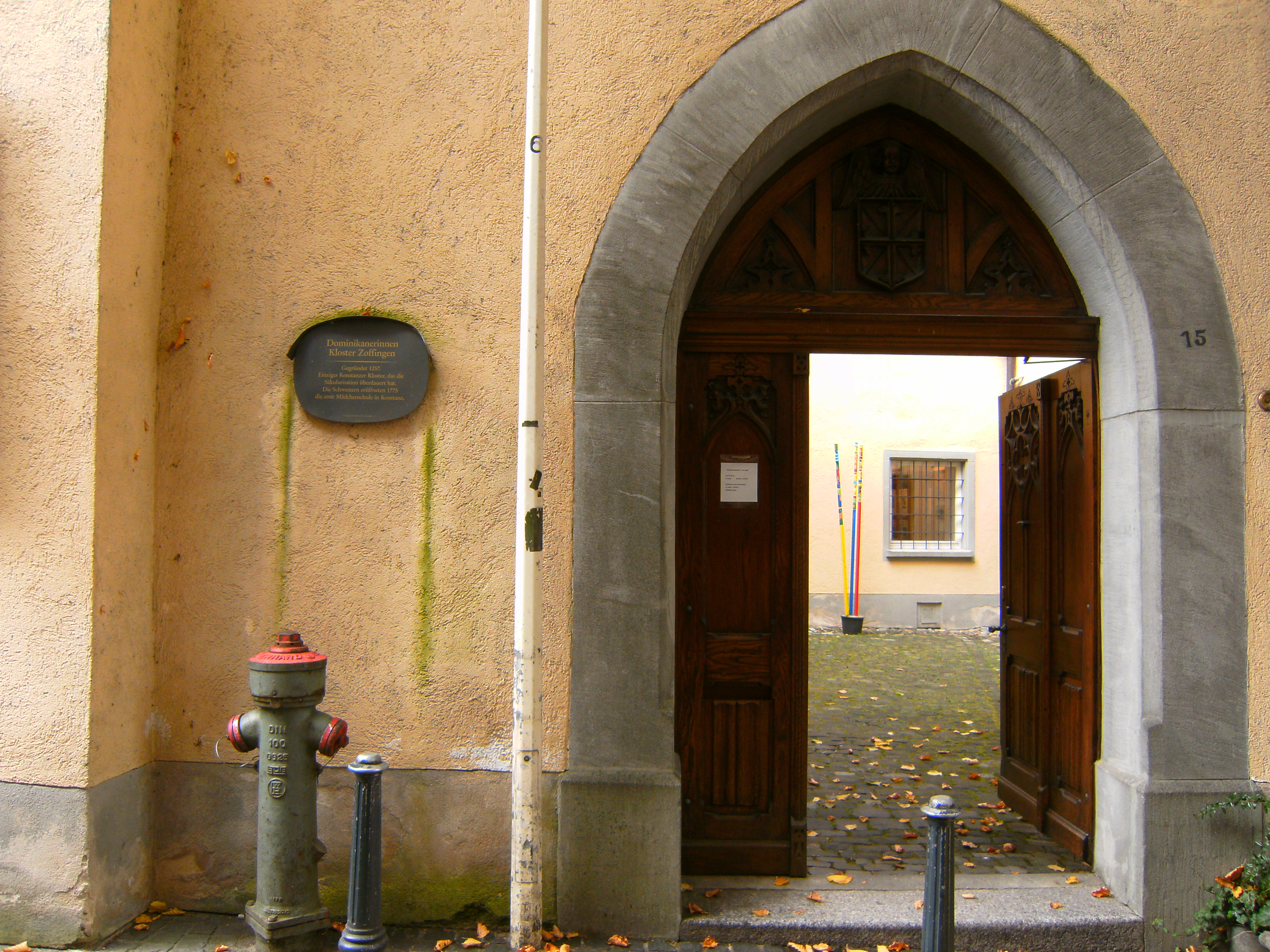 Konstanz, Germany, Brückengasse: Entrance to Kloster Zoffingen (cloister).